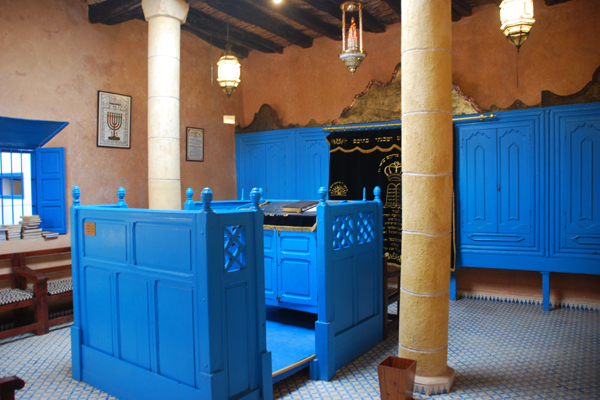 [Anouar Hamama] One of the last remaining synagogues in Essaouira. Full story